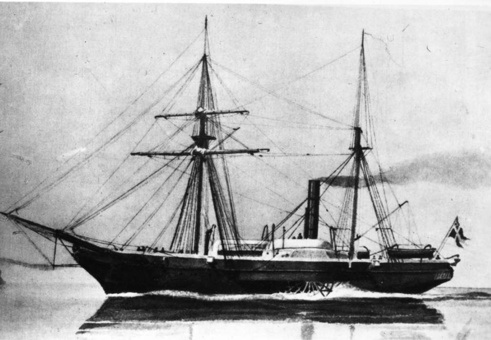 Painting of the Swedish paddle steamer Thor.